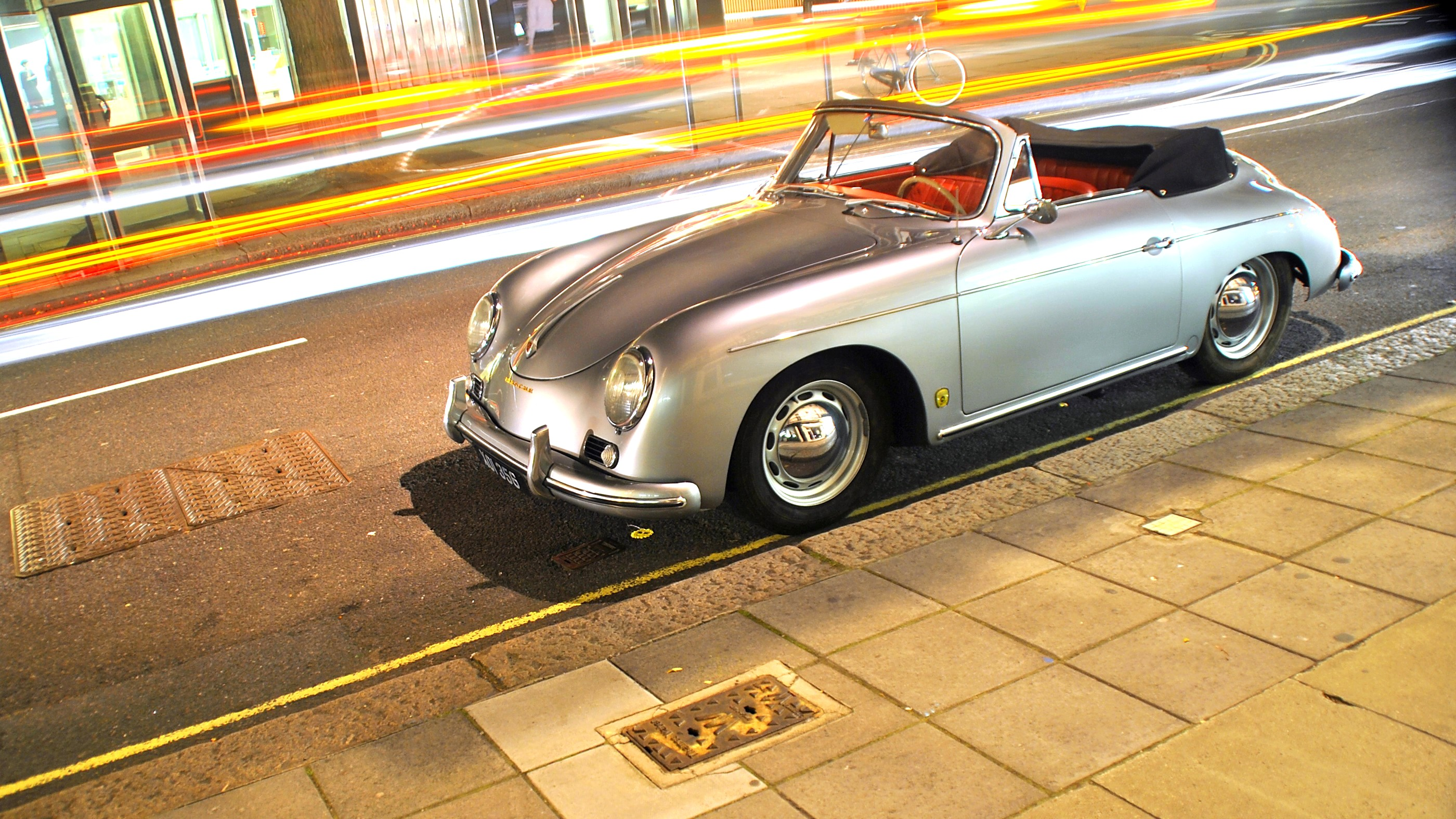 Porsche 356A Cabriolet pictured in London